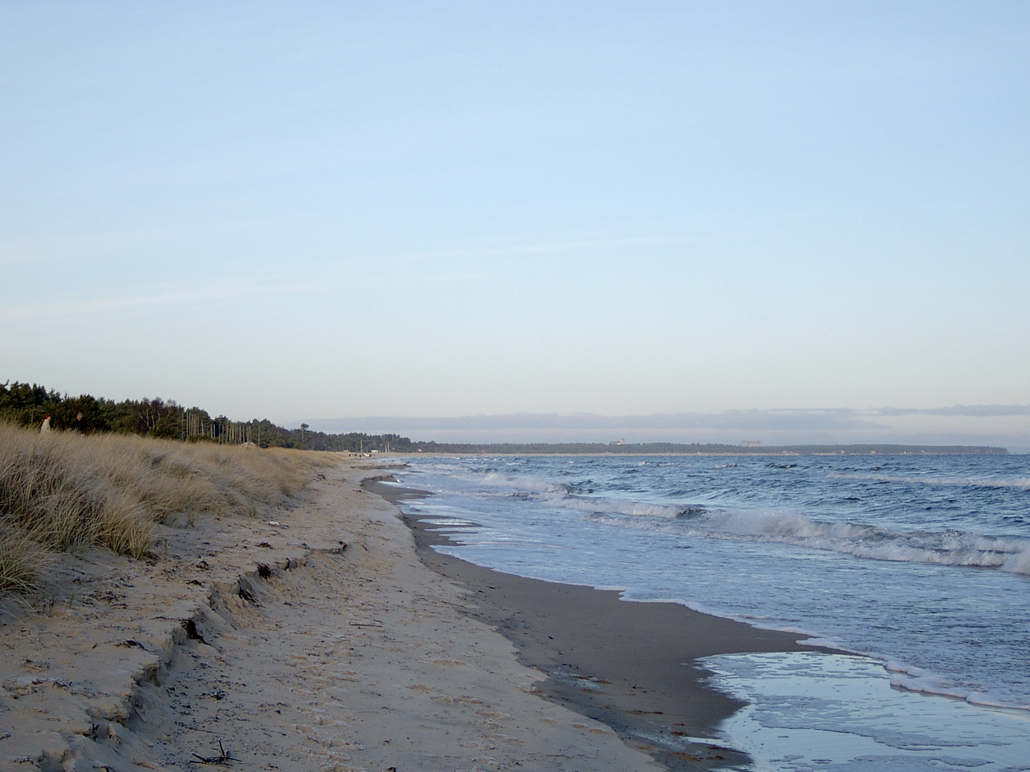 The Hanöbukten in southern Sweden seen from a spot near the village Yngsjö, from south to north.